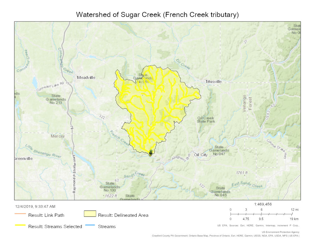 Map of the watershed of Sugar Creek (French Creek tributary) in Crawford and Venango Counties, Pennsylvania.